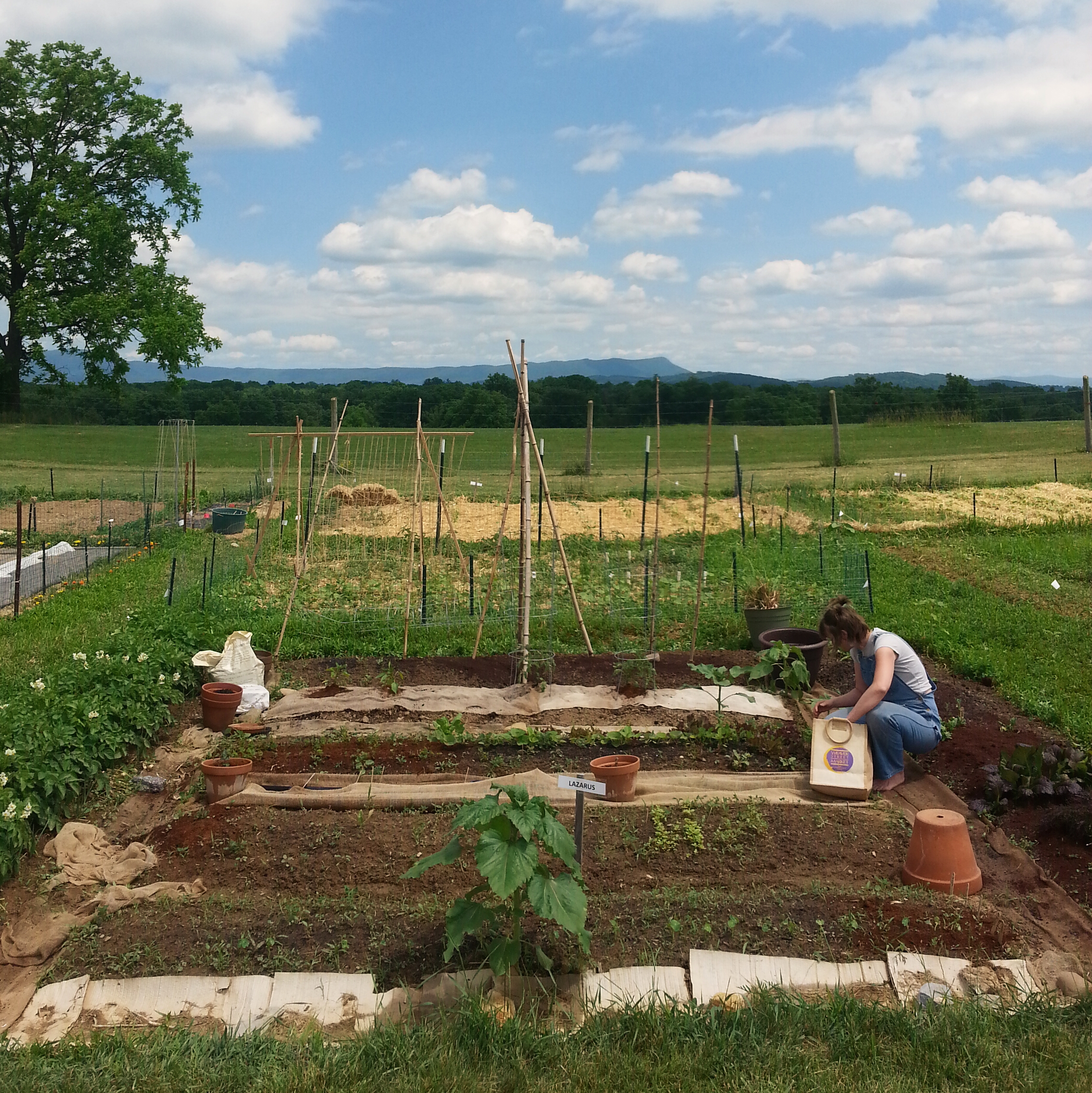 A 20ft x 20ft community garden plot in Harrisonburg, Virginia, United States of America